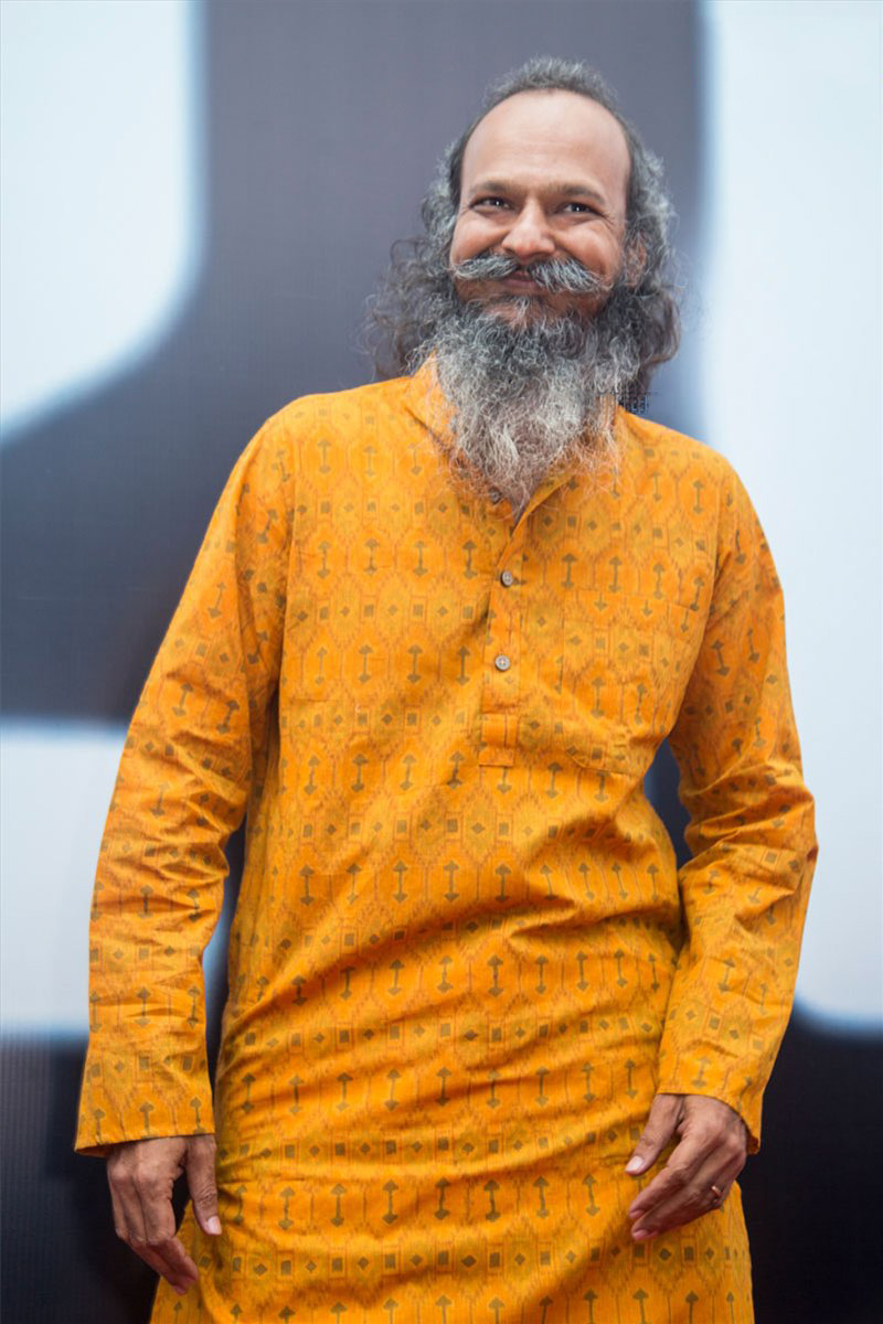 Nirav Shah at the 2.0 Trailer Launch